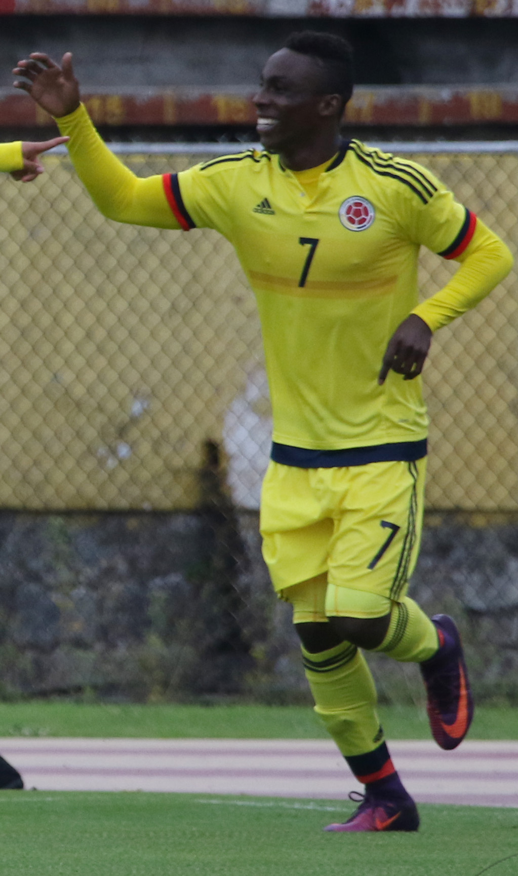 Quito, 2 de febrero del 2017 (Andes).- La escuadra argentina necesitaba ante Colombia un buen resultado para sacudirse del 0-3 recibido en la primera fecha frente a Uruguay y lo consiguió con goles en el minuto uno y el 92, con los que venció 2-1 a Colombia en la segunda fecha del Sudamericano Sub 20 Ecuador 2017. ANDES/Micaela Ayala V. This file comes from the Flickr stream of the Public News Agency of Ecuador and South America and is copyrighted. This file is verified as being licenced under an appropriate Creative Commons licence. In short: you are free to modify the file as long as you attribute Photographer name/Andes and distribute it under the same licence. This tag does not indicate the copyright status of the attached work. A normal copyright tag is still required. See Commons:Licensing for more information. English | español | +/−